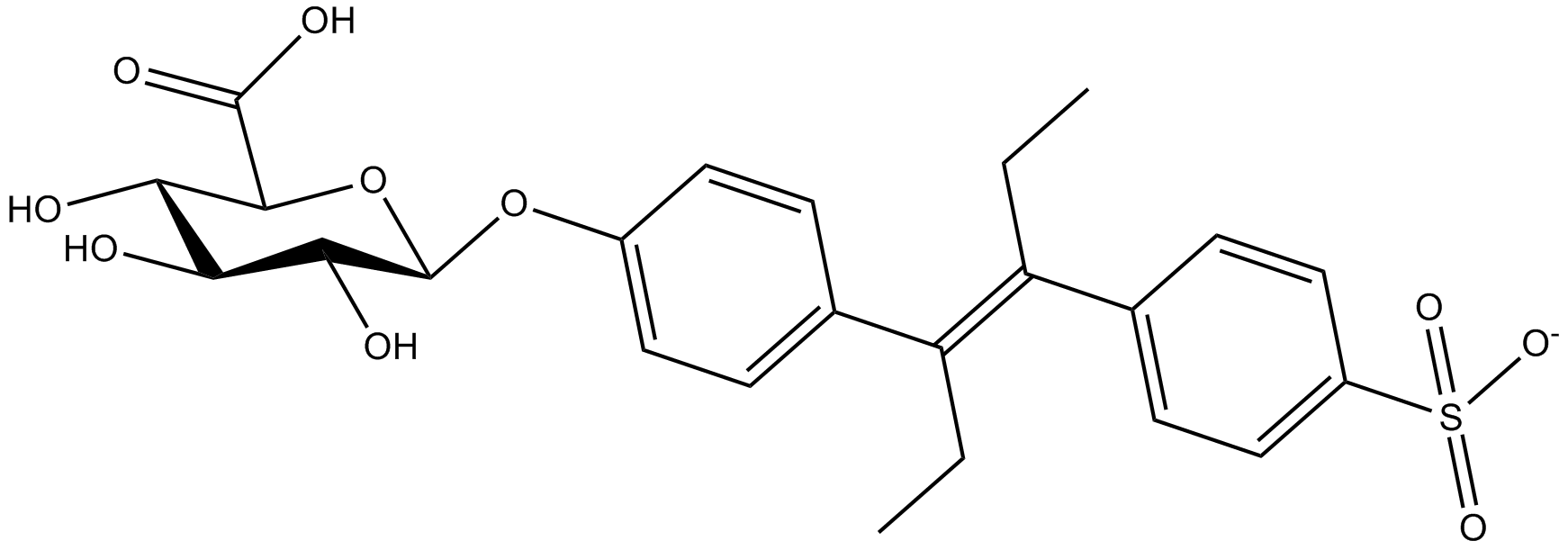 conjugation of DES with sulfate and glucuronic acid